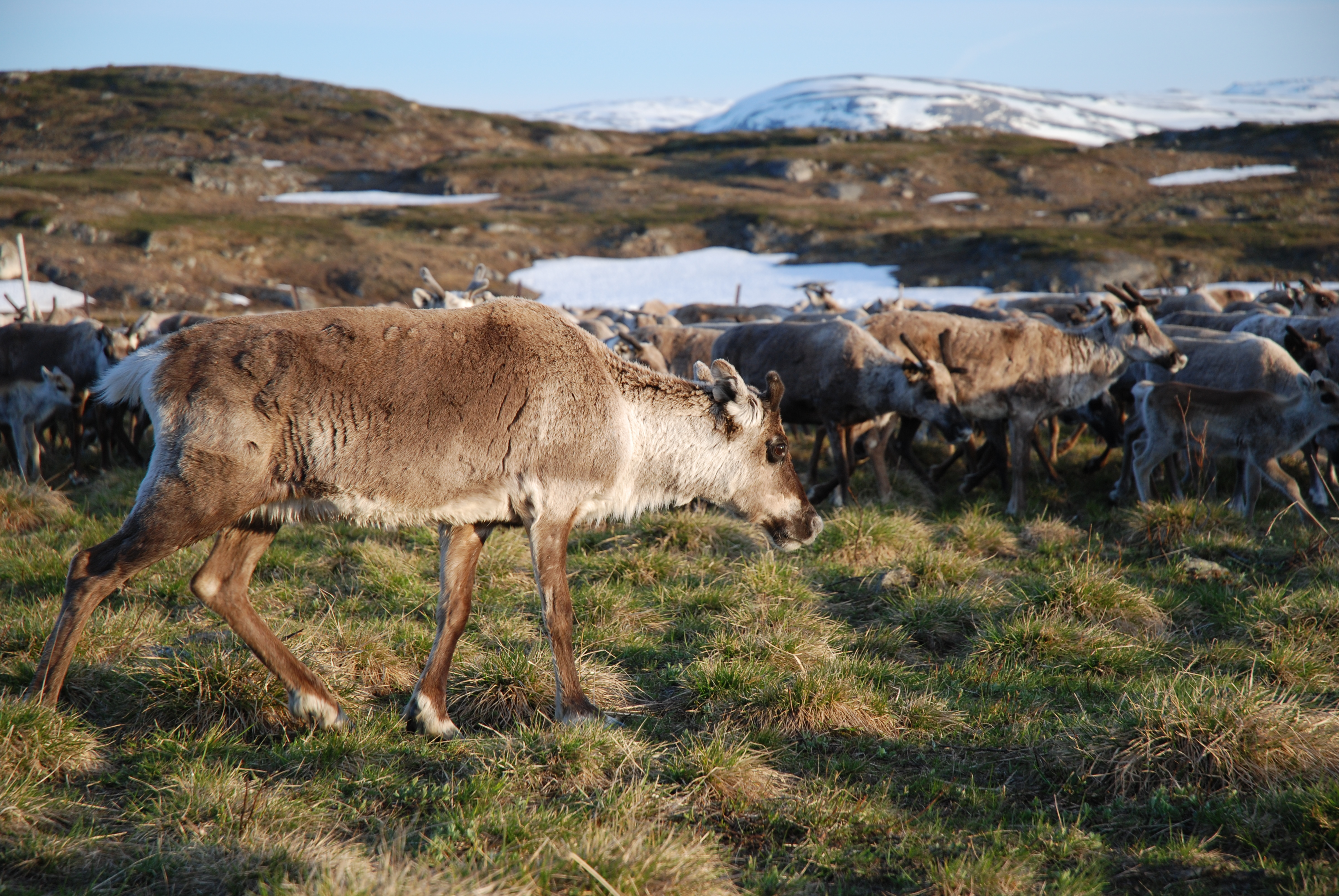 Keywords: Animals, Nature, Sweden